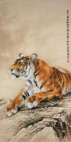 Tiger